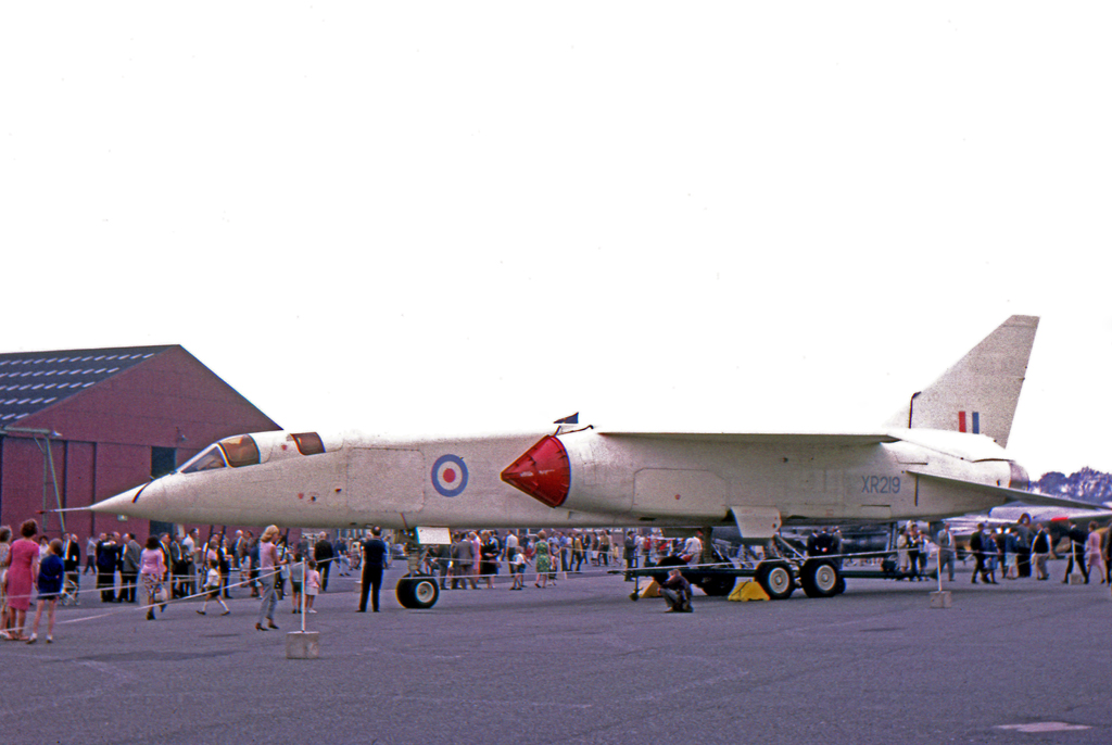 The prototype BAC TSR-2 at Warton plant and airfield in 1966. This was the only example to fly.